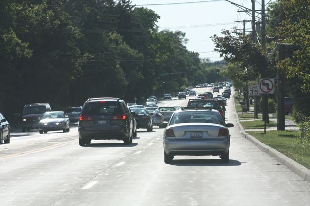 Illinois Route 22 during a sunny afternoon in Lincolnshire, Illinois village limits